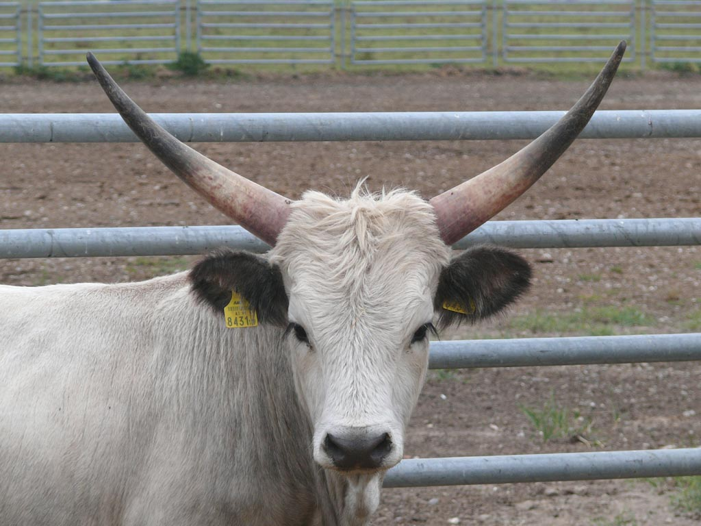 Nationalpark Neusiedler See: Hungarian grey cattle, young bull